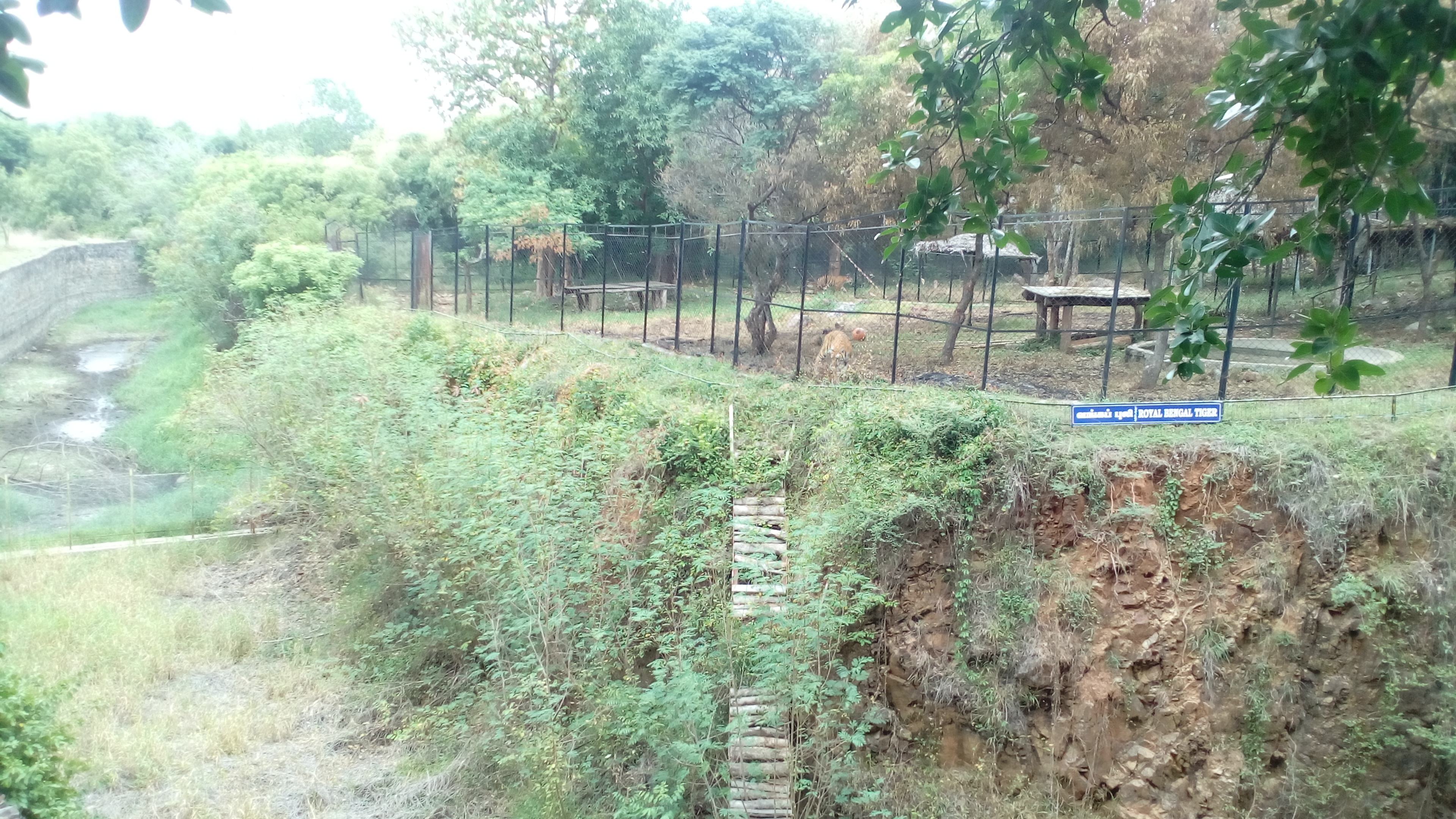 zoo